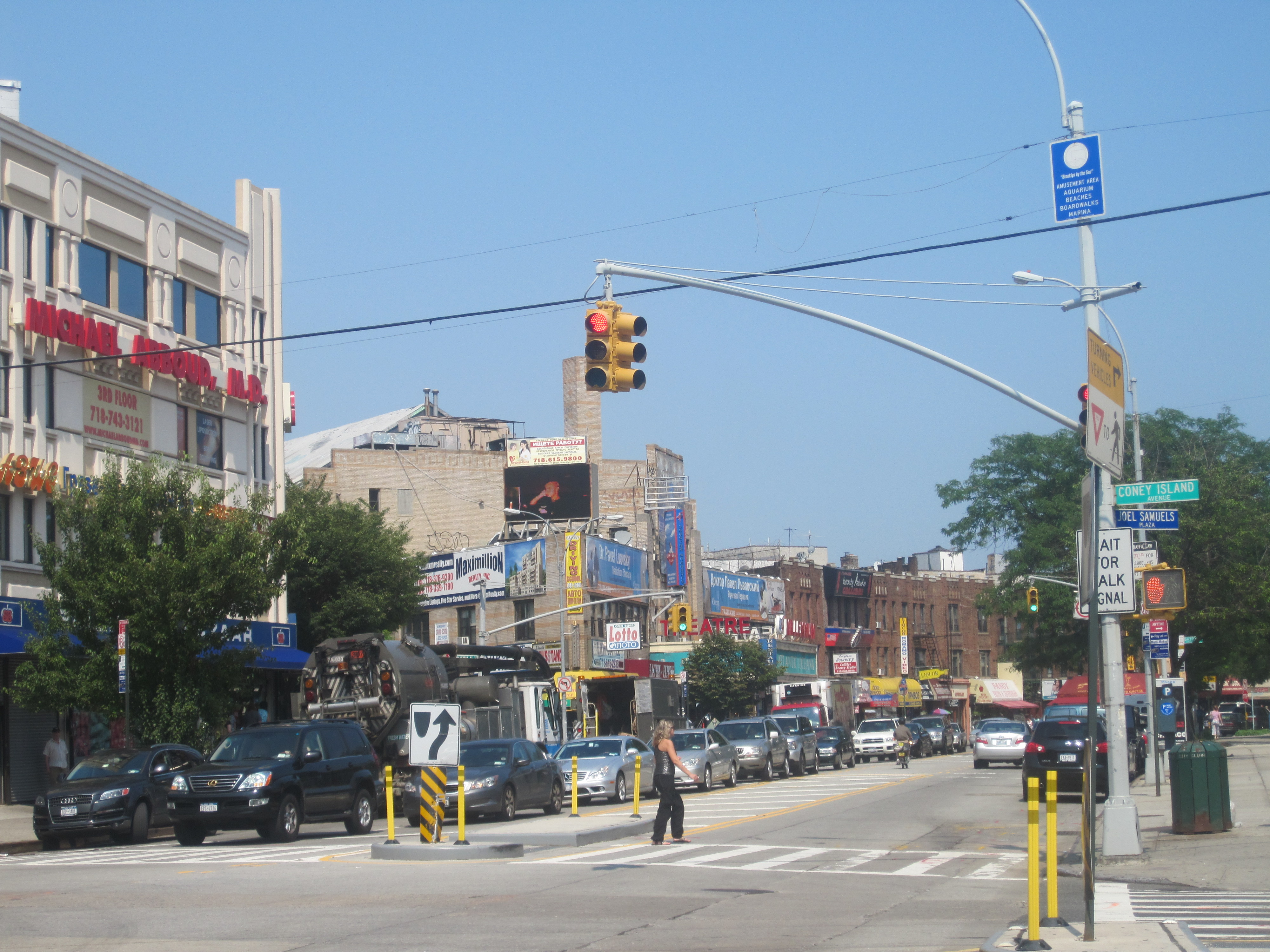 Downtown section of Brighton Beach, looking east along Brighton Beach Avenue from the corner of Coney Island Avenue, better known as Joel Samuel Plaza.